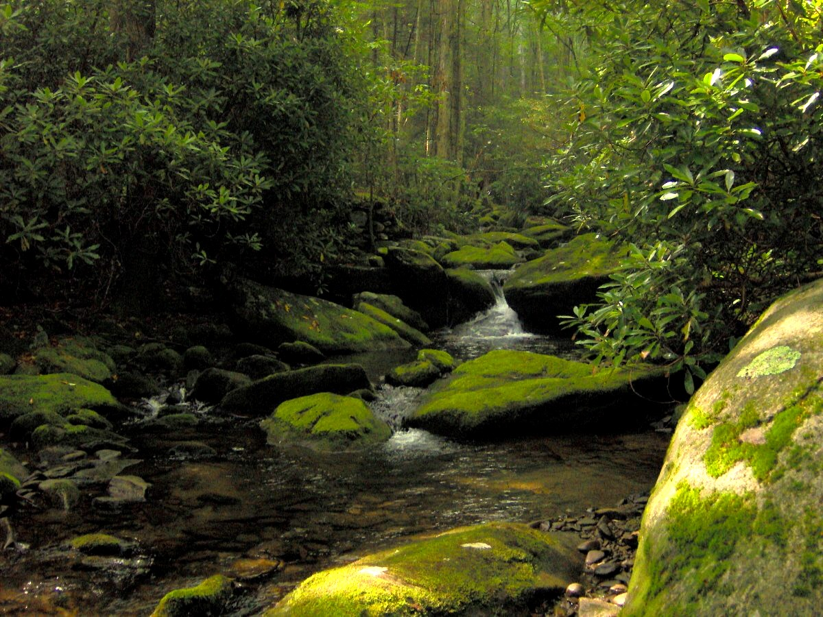 Jakes Creek, viewed from the Meigs Mountain Trail footbridge in the Great Smoky Mountains of East Tennessee, in the southeastern United States. Legendary mountaineer Lem Ownby (1889-1984) lived in the vicinity.